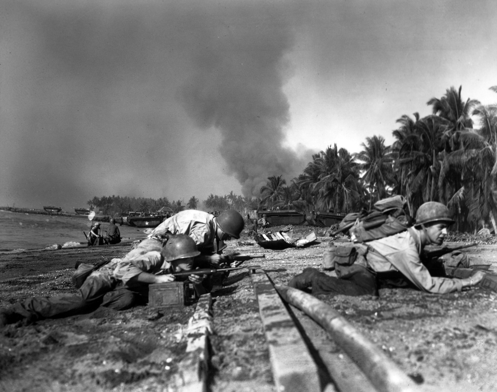 First wave U.S. troops from the Americal Division's 3rd Battalion, 132nd Infantry during the landing on Talisay beach, Cebu. Alligator LVTs are visible rolling up in the background. View facing south, Signal Corps photograph SC 204236.